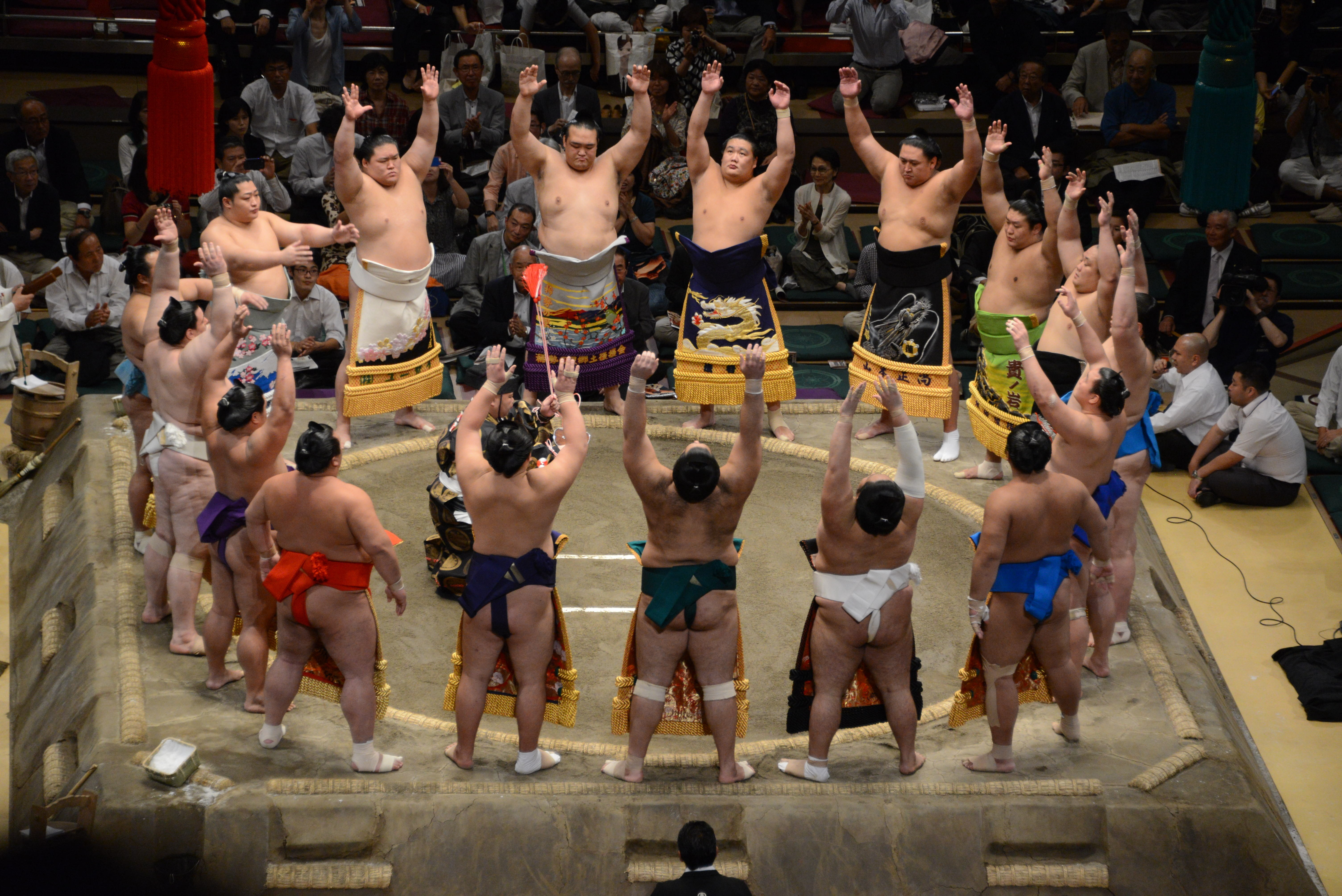 The dohyō-iri for the finals at the Aki basho at Ryōgoku Kokugikan on Sept. 28, 2014.